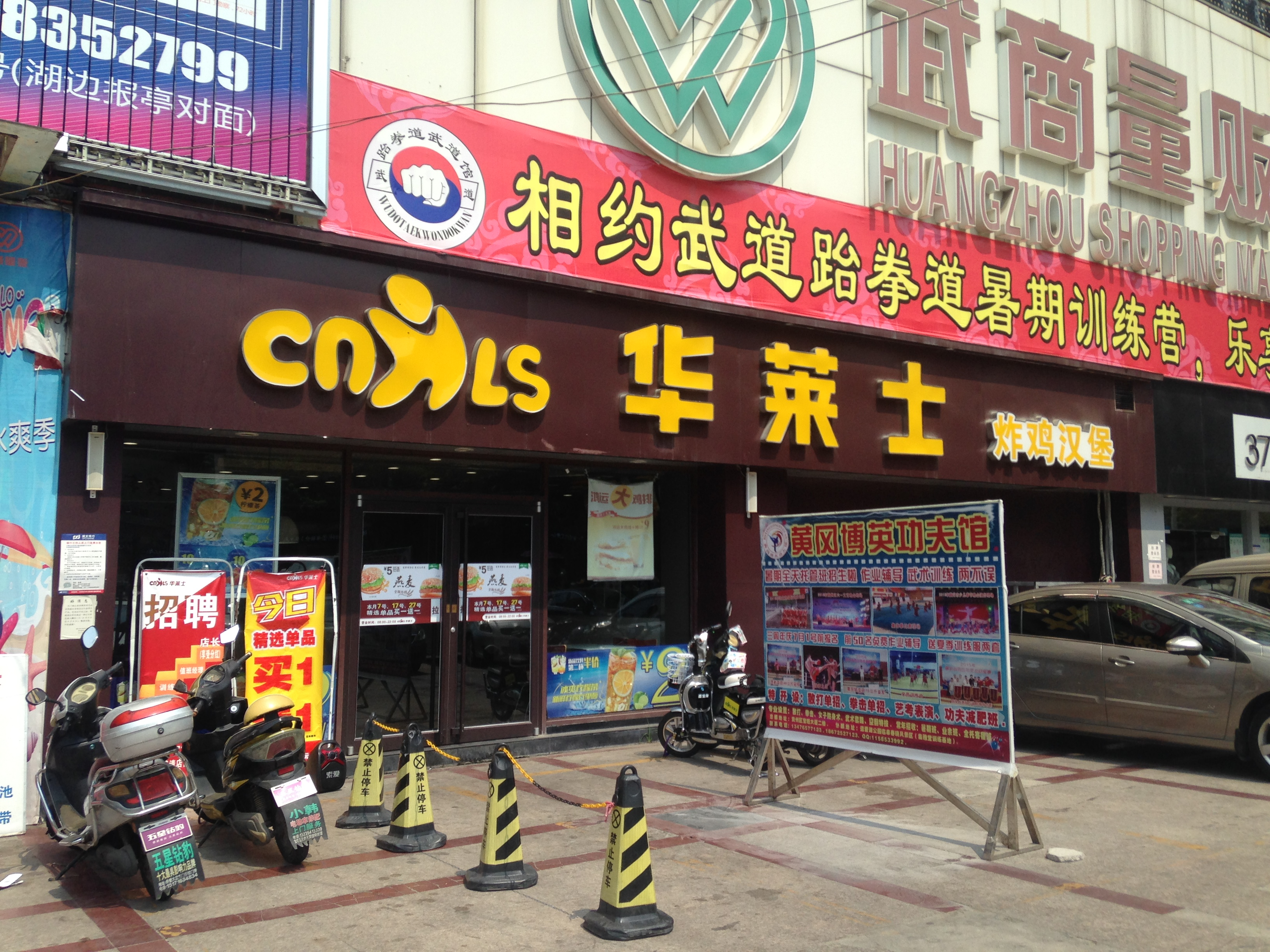 CNHLS shop in Huangzhou District, Huanggang, Hubei